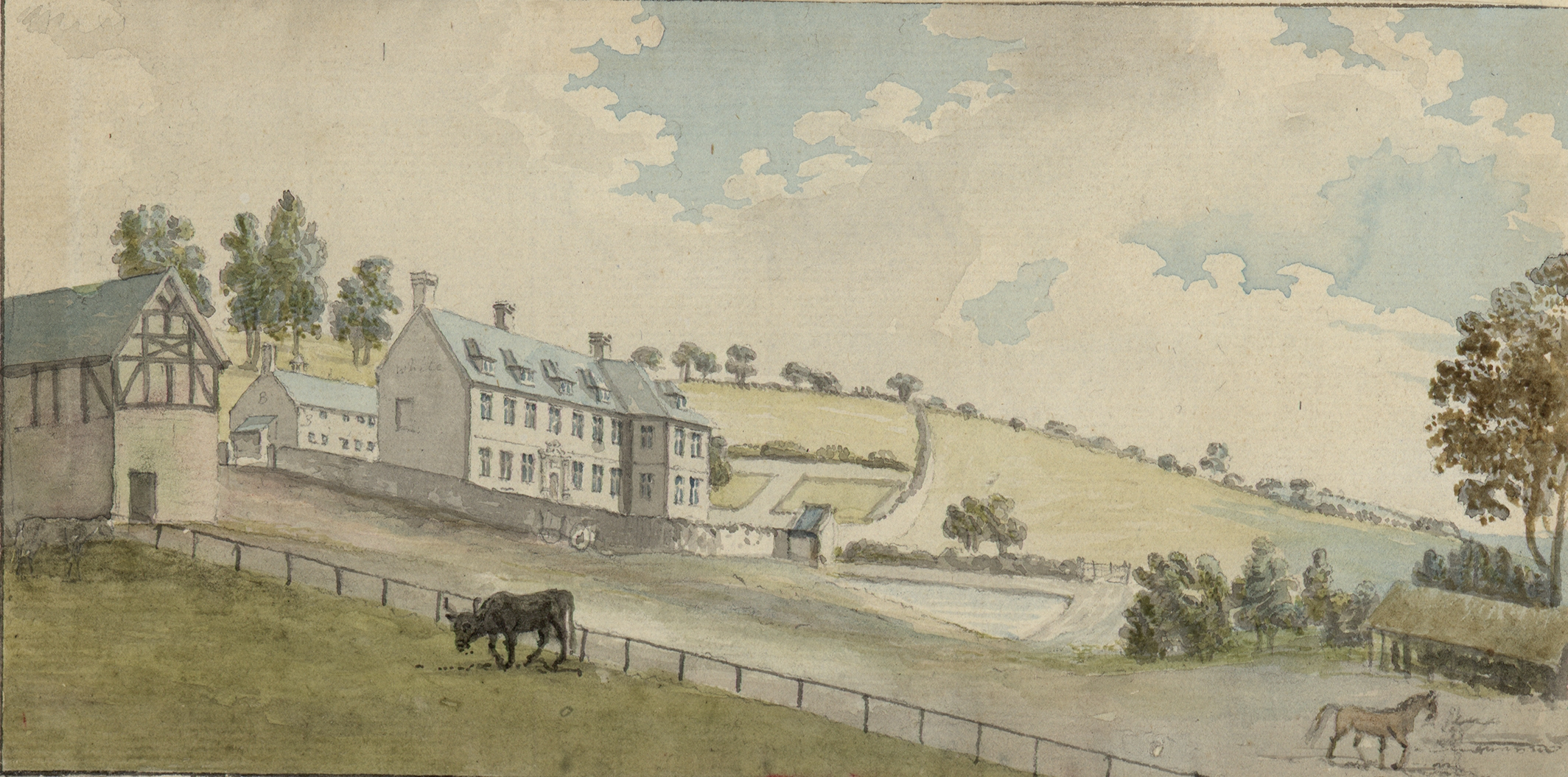 An image from a set of 8 extra-illustrated volumes of A tour in Wales by Thomas Pennant (1726-1798) that chronicle the three journeys he made through Wales between 1773 and 1776. These volumes are unique because they were compiled for Pennant's own library at Downing. This edition was produced in 1781. The volumes include a number of original drawings by Moses Griffiths, Ingleby and other well known artists of the period. Thomas Pennant (1726-1798)